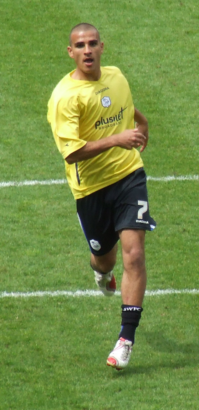 Marcus Tudgay at Hillsborough Stadium, Sheffield, UK